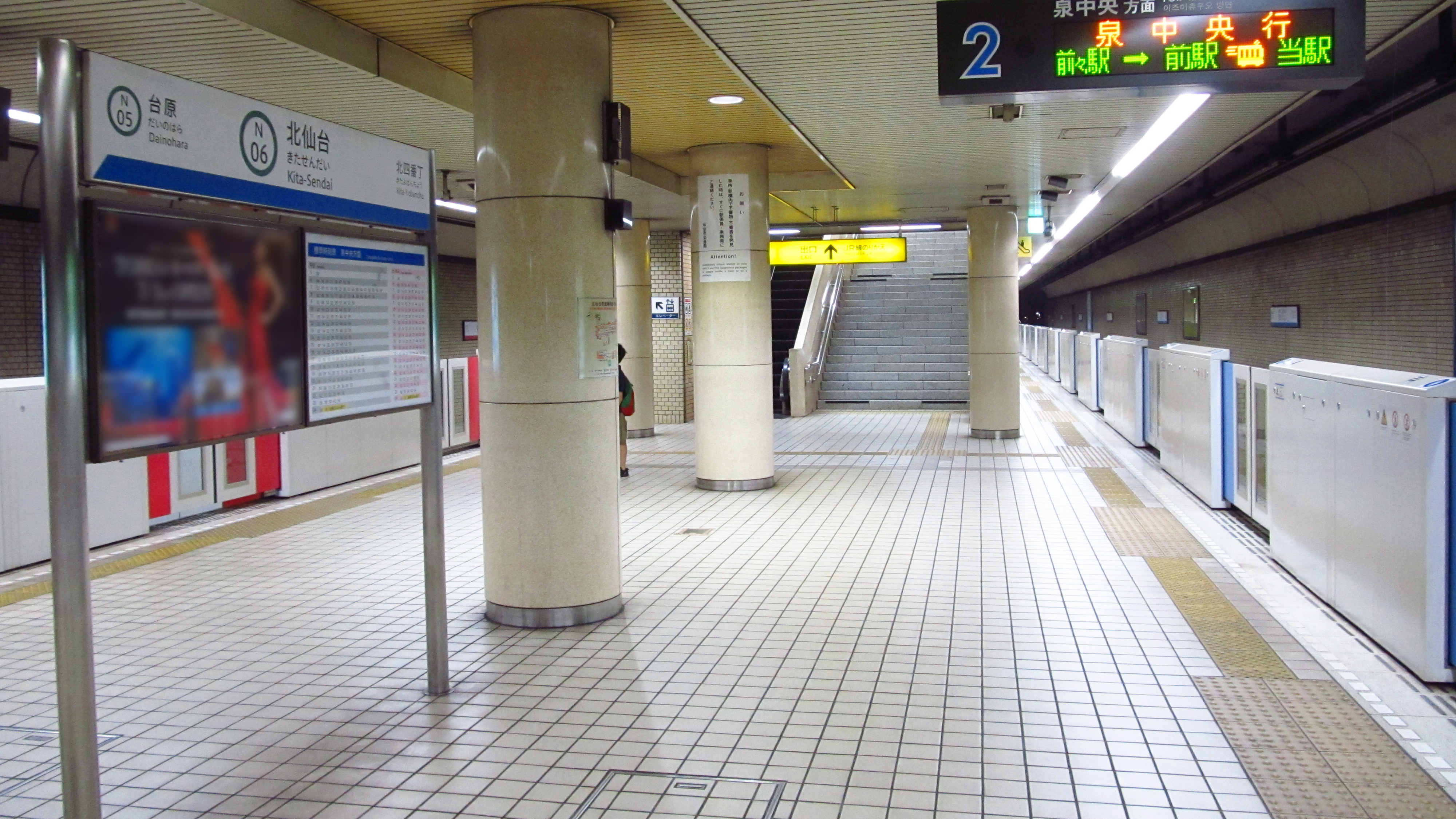 The platform at Kita-Sendai Station on Sendai subway Nanboku Line in Aoba-ku, Sendai, Japan